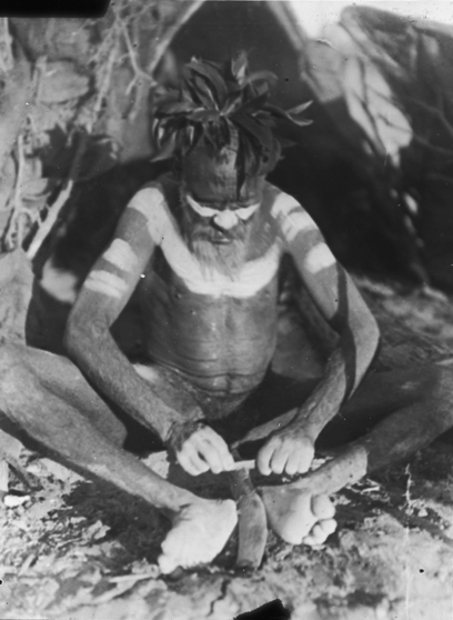 Original caption: “Man scraping a boomerang with a sharp stone flake.”